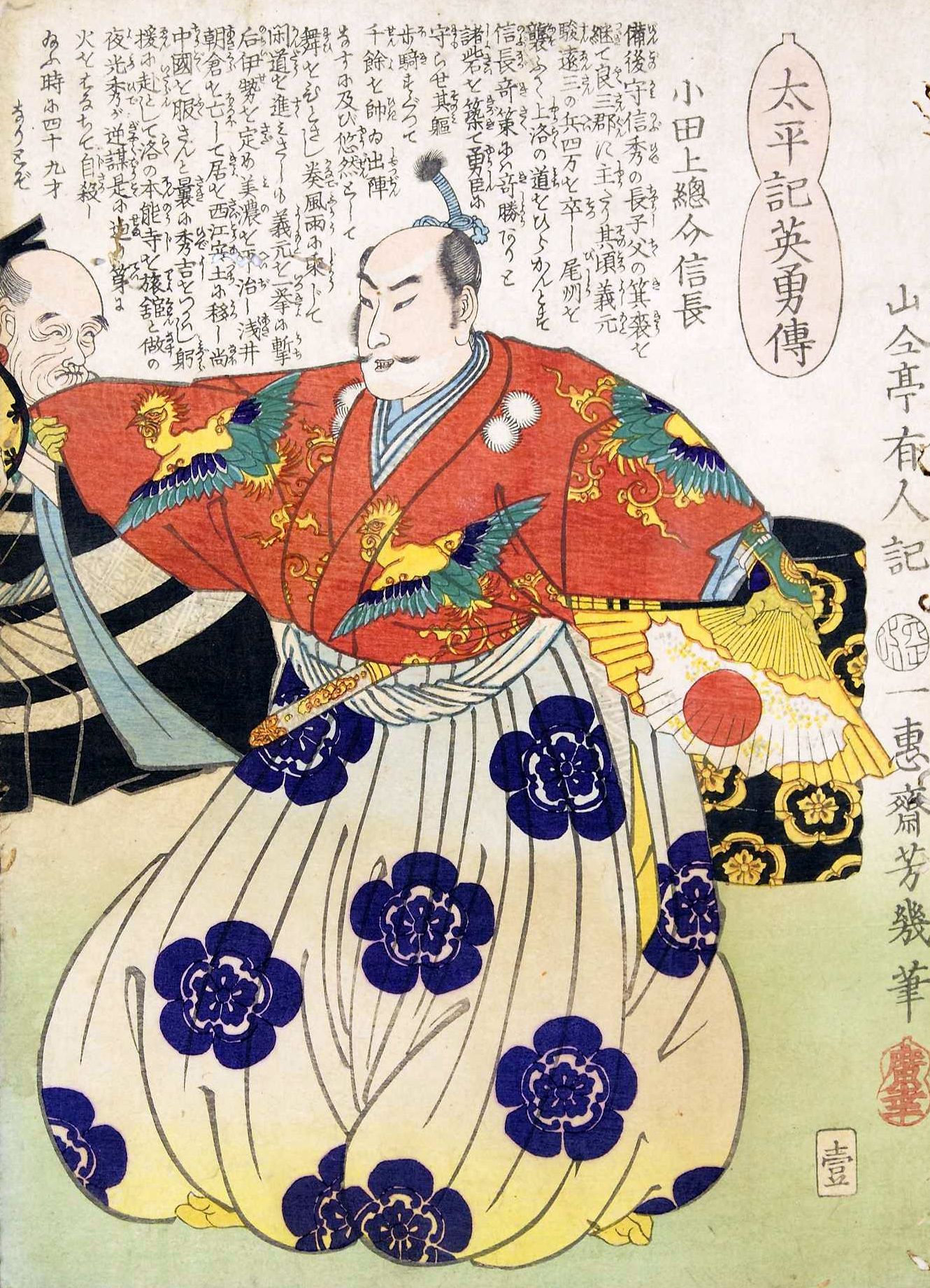 Daimyō Oda Nobunaga